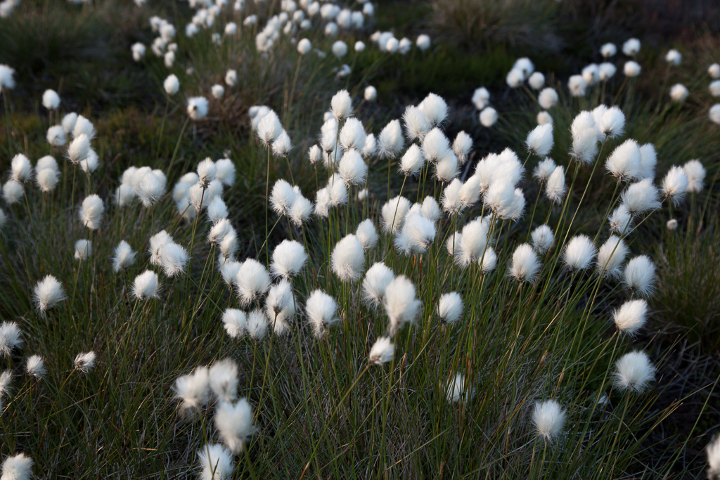 Growing on the North York Moors, Northern England.